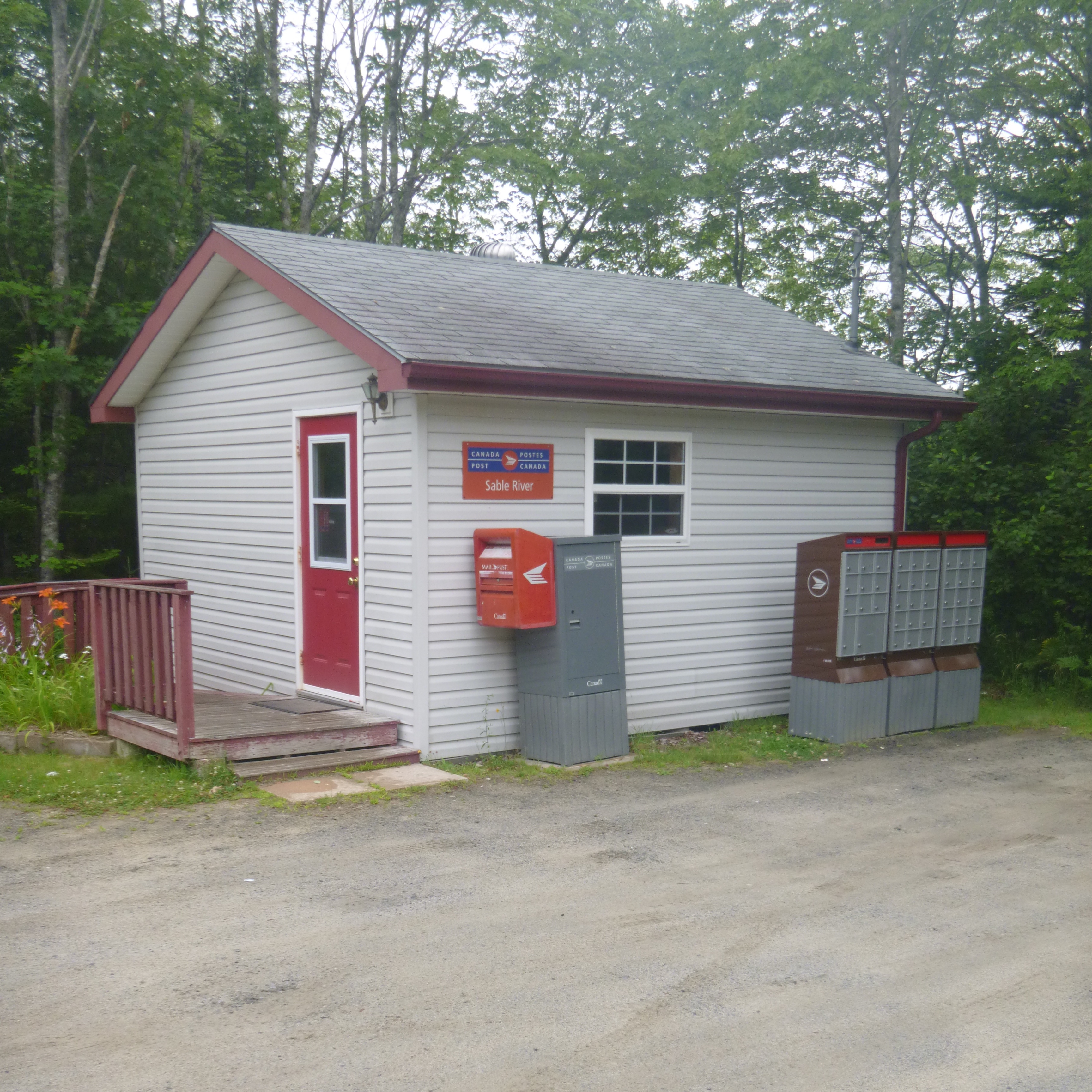 Post office in Sable River, Shelburne County, Nova Scotia